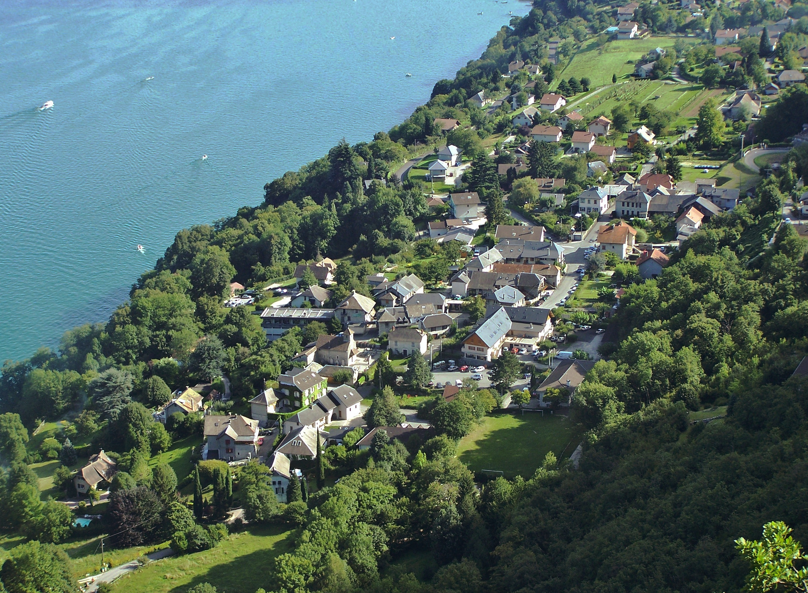 Landscape of French village of Bourdeau close to the lake of Bourget in Savoie.